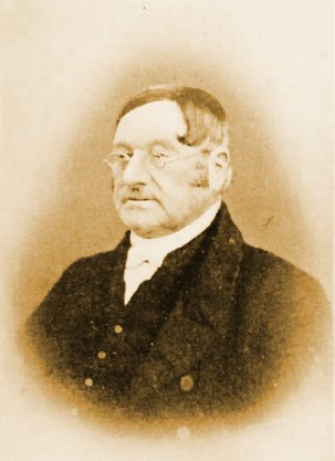 Photograph of Rev. Richard Boys (1785-1866)